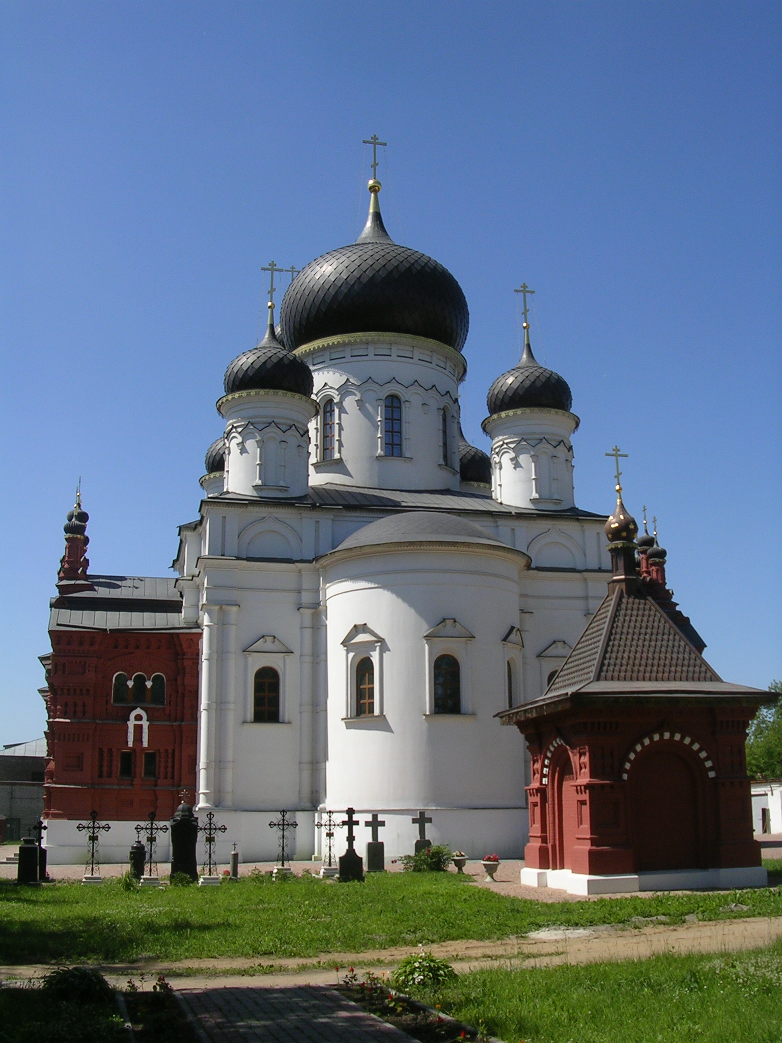 East side of Tikhvin Temple in Noginsk